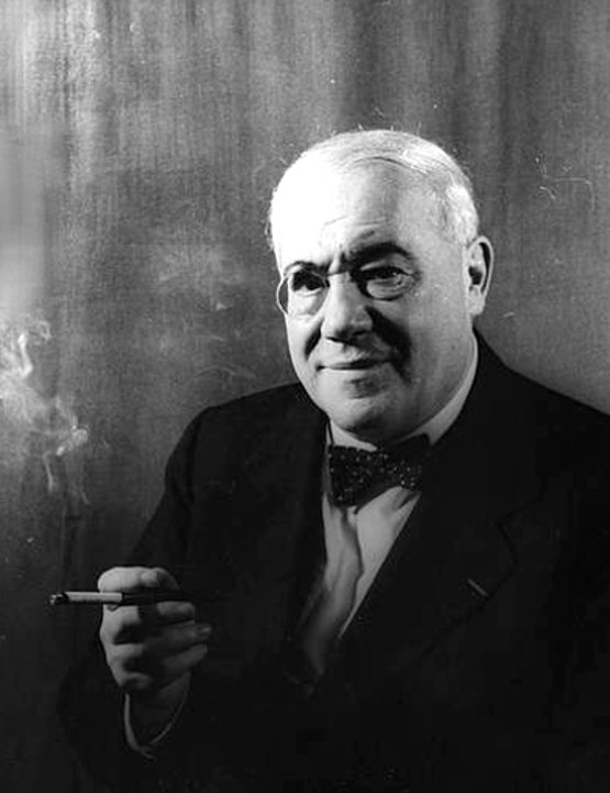 Portrait of Ferenc Molnár, taken by Carl Van Vechten on February 16, 1941.